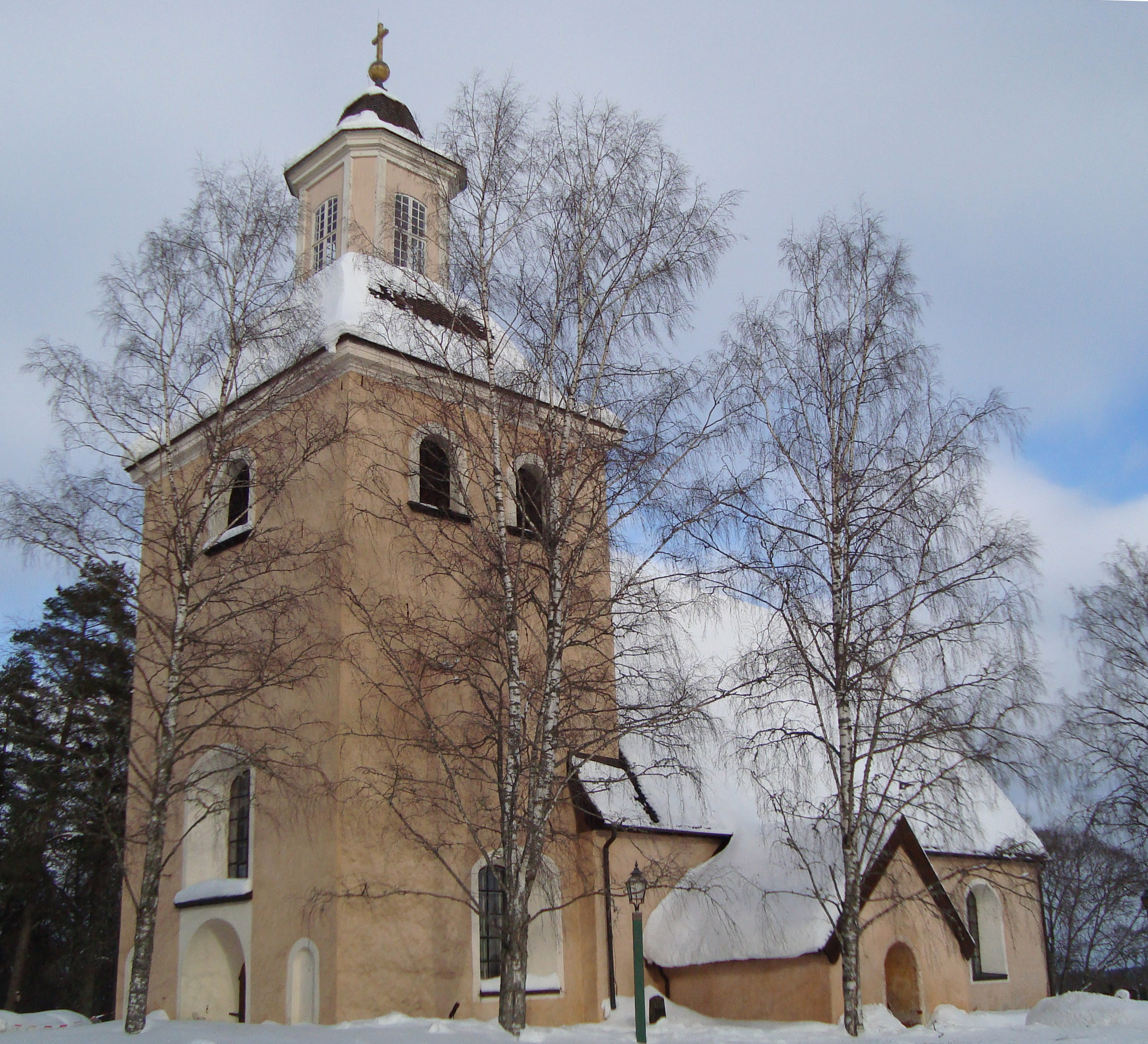 Kumla church, Sala Municipality, Diocese of Västerås, Sweden